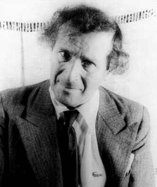 Photo portrait of Marc Chagall